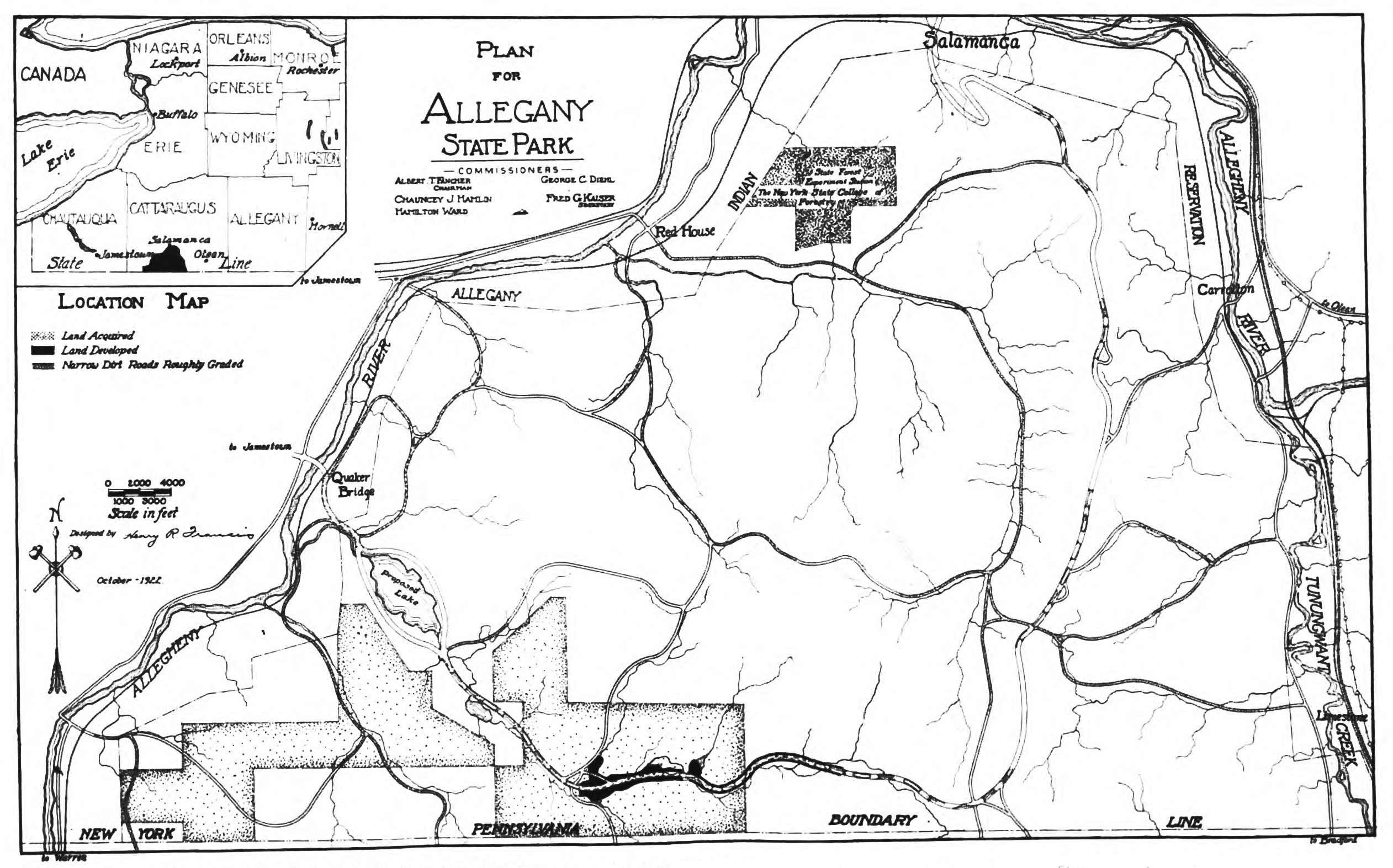 A map showing the proposed borders of and impovements to Allegany State Park in New York state.